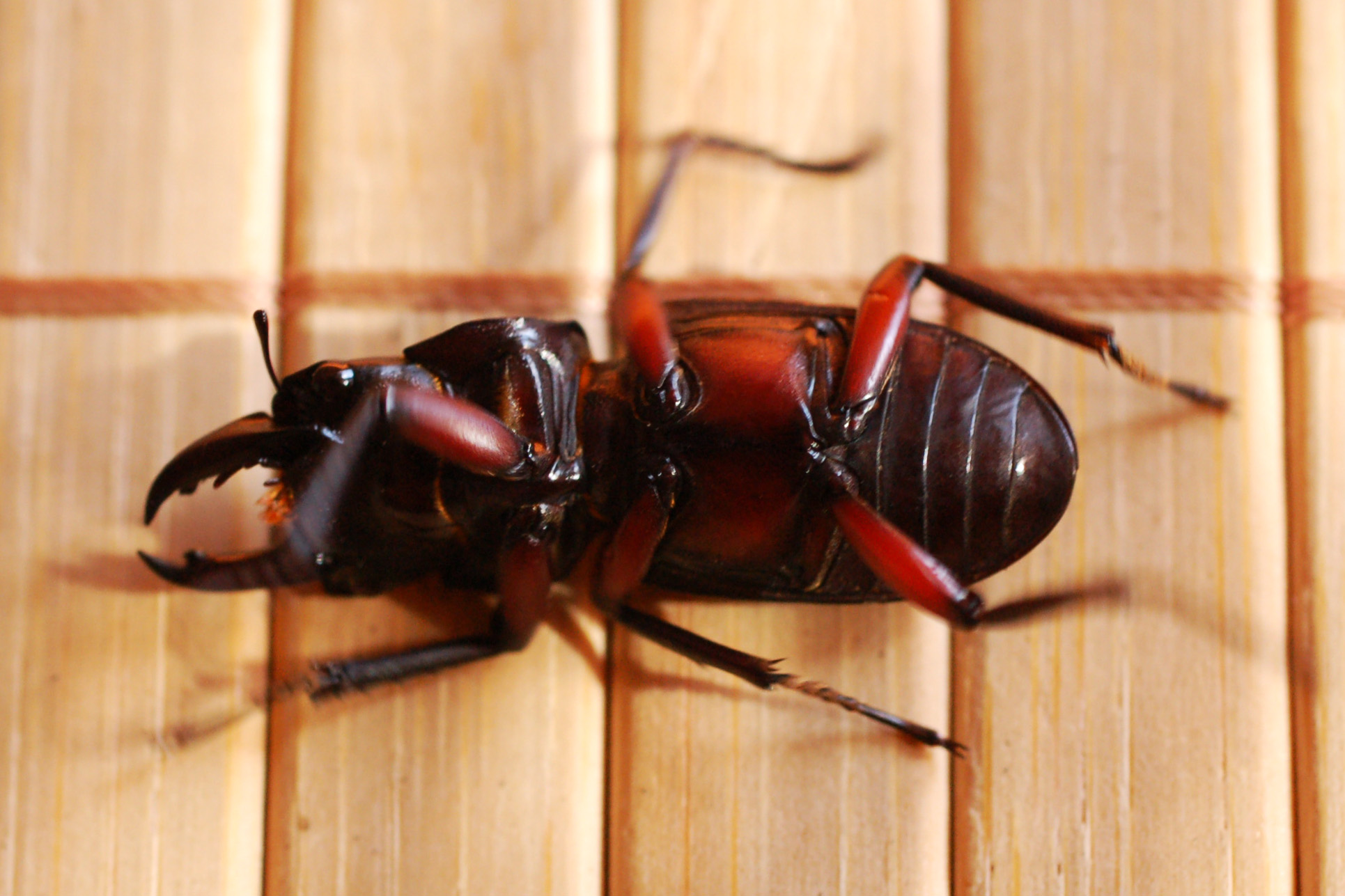 Dorcus rubrofemoratus